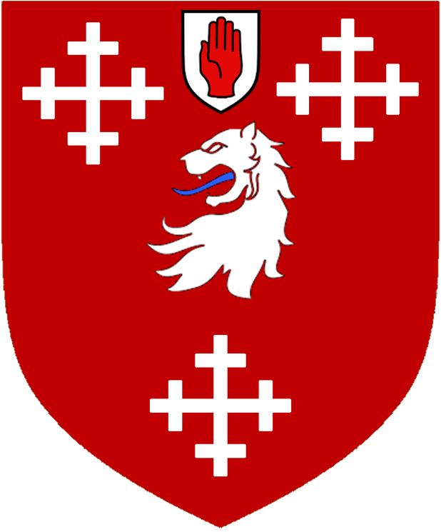 Shield of arms of the Armytage baronets of Kirklees